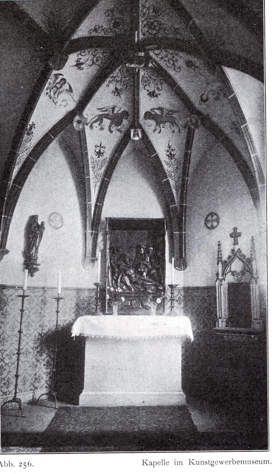 Kunstgewerbemuseum am Friedrichsplatz in Düsseldorf, erbaut 1893 bis 1896, Architekten Carl Hecker und Franz Deckers, Kapelle.jpg